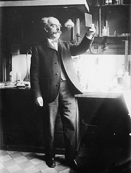 Gabriel Lippmann (1845– 1921), Franco-Luxembourgian physicist and inventor